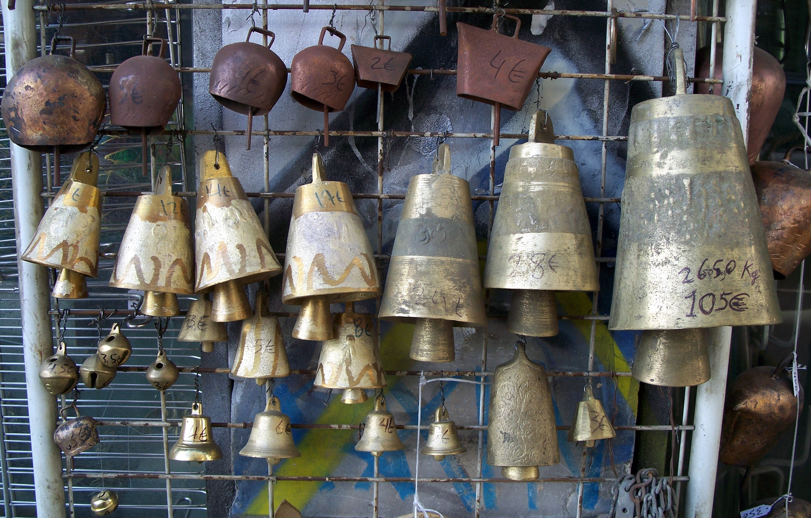 Various bells, i.e. for cows, sheep and cats (bottom), at a market in Athens, Greece.